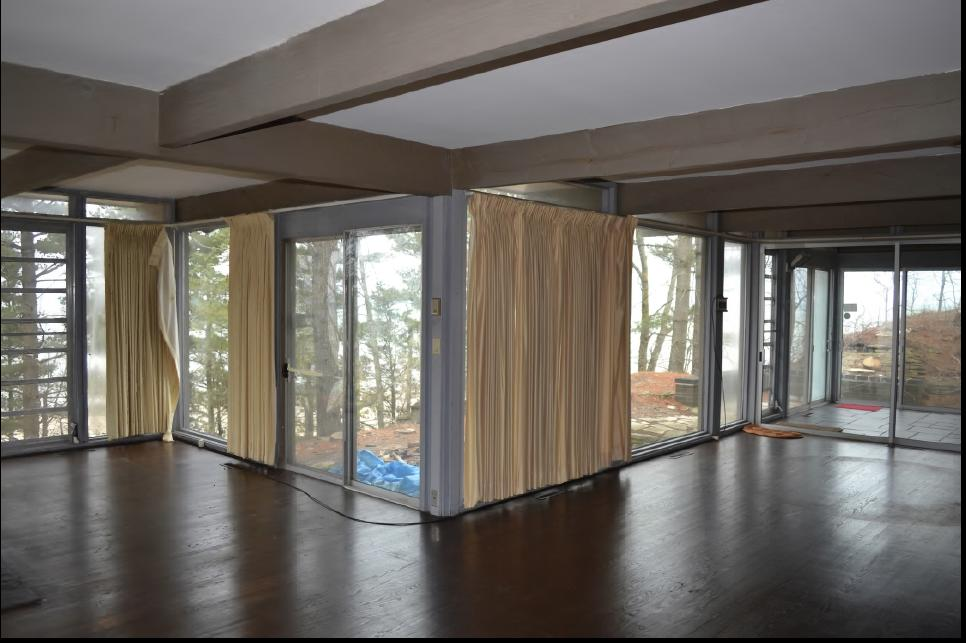 Interior living of the John and Gerda Meyer House, Beverly Shores, Indiana